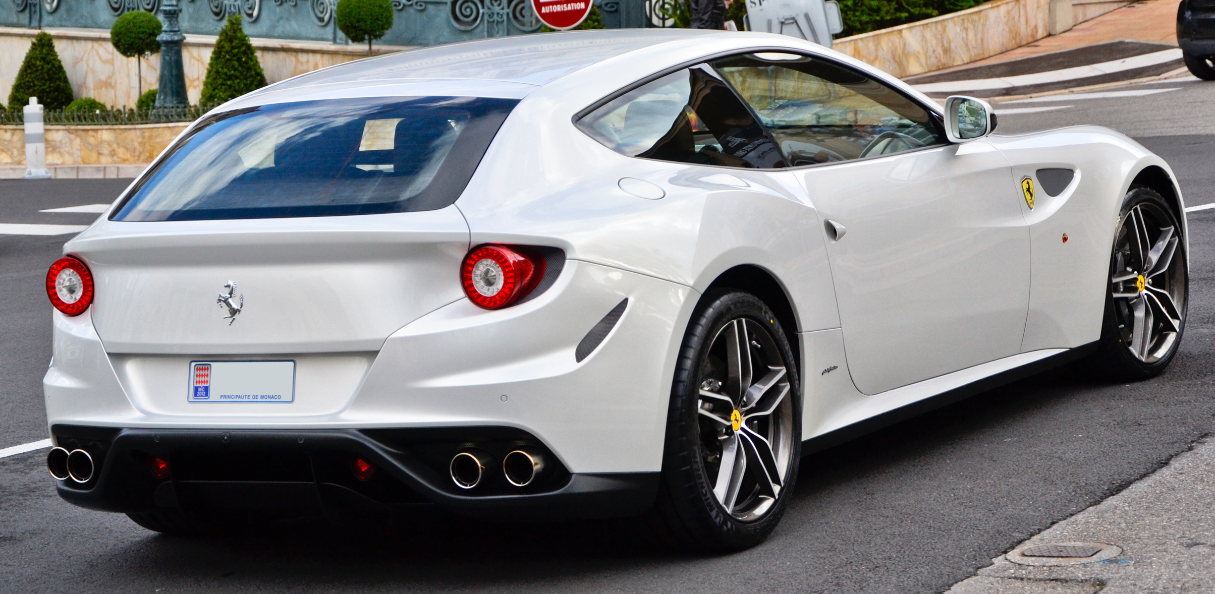 Ferrari FF in Monaco